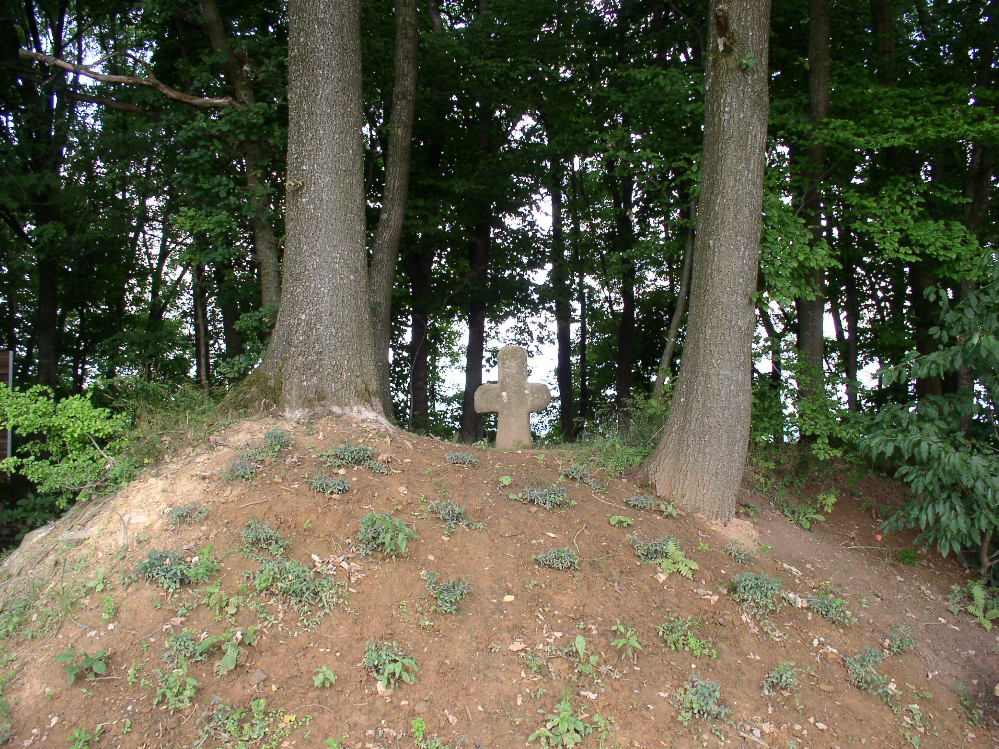 Atonement cross in Frickenhofen, germany